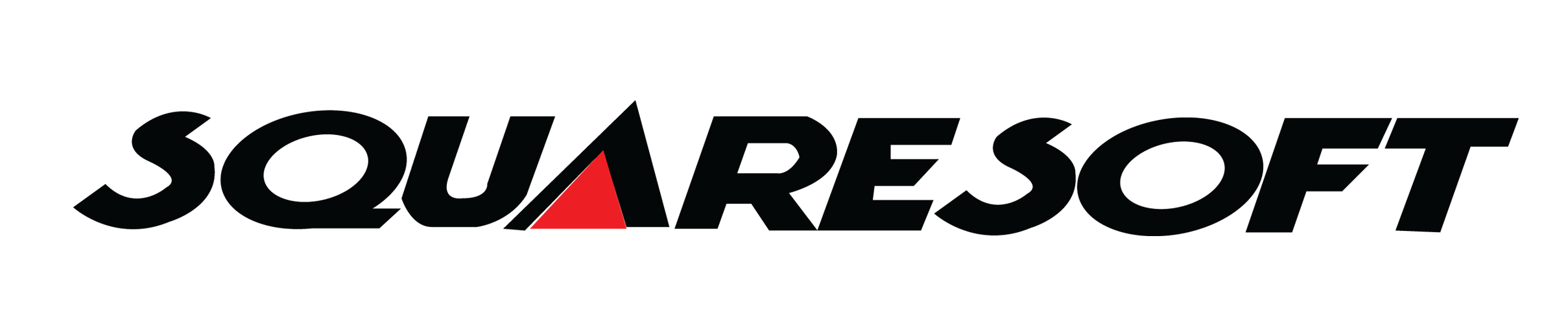 Square Soft logo logo, the North American Subsidiary of Square Co. Japan